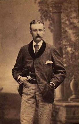 Walter Edmund Christmas-Dirckinck-Holmfeld (1834-1916), Danish army officer